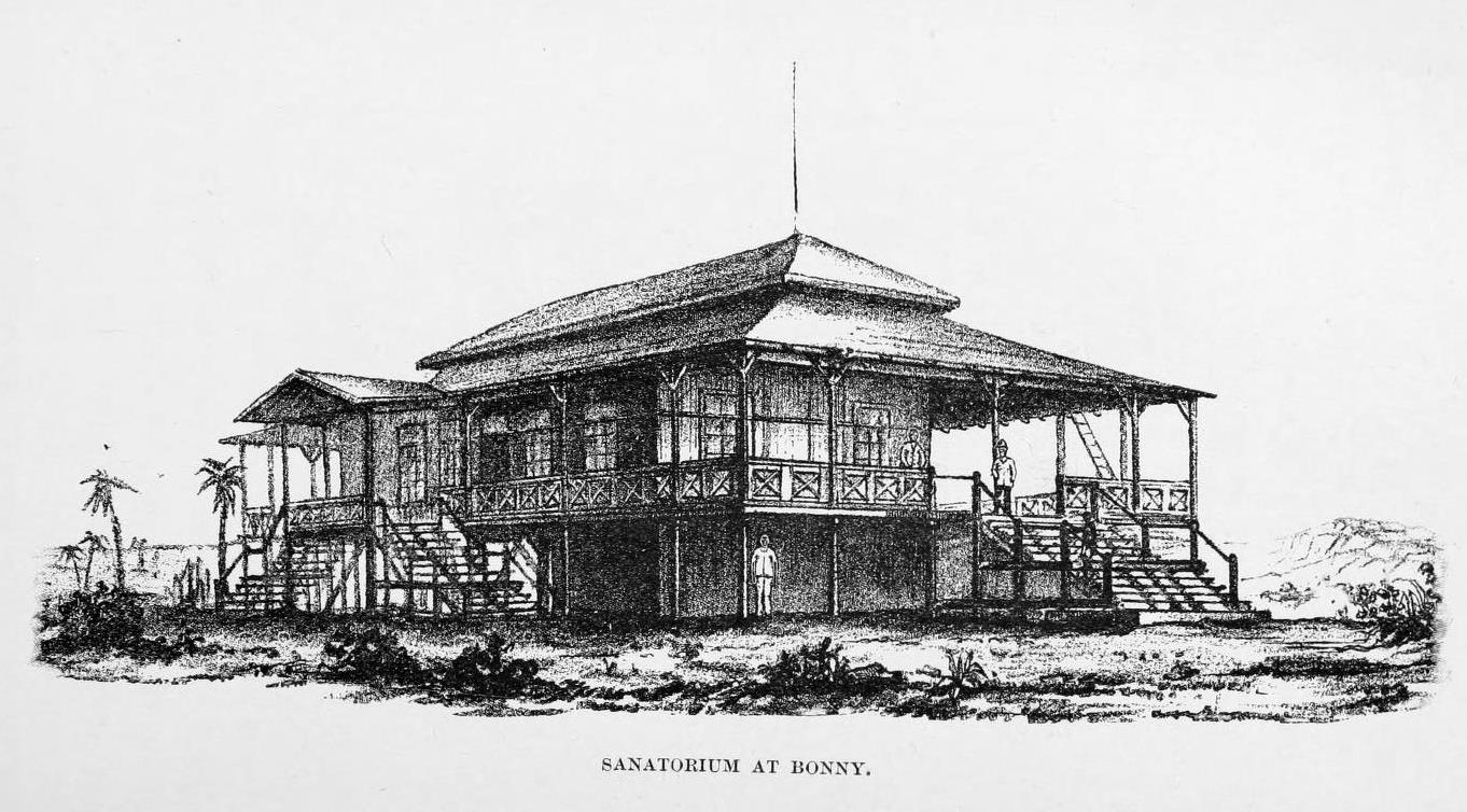 Pictures excerpted from HM Stanley's book "The Congo and the founding of its free state; a story of work and exploration (1885)"